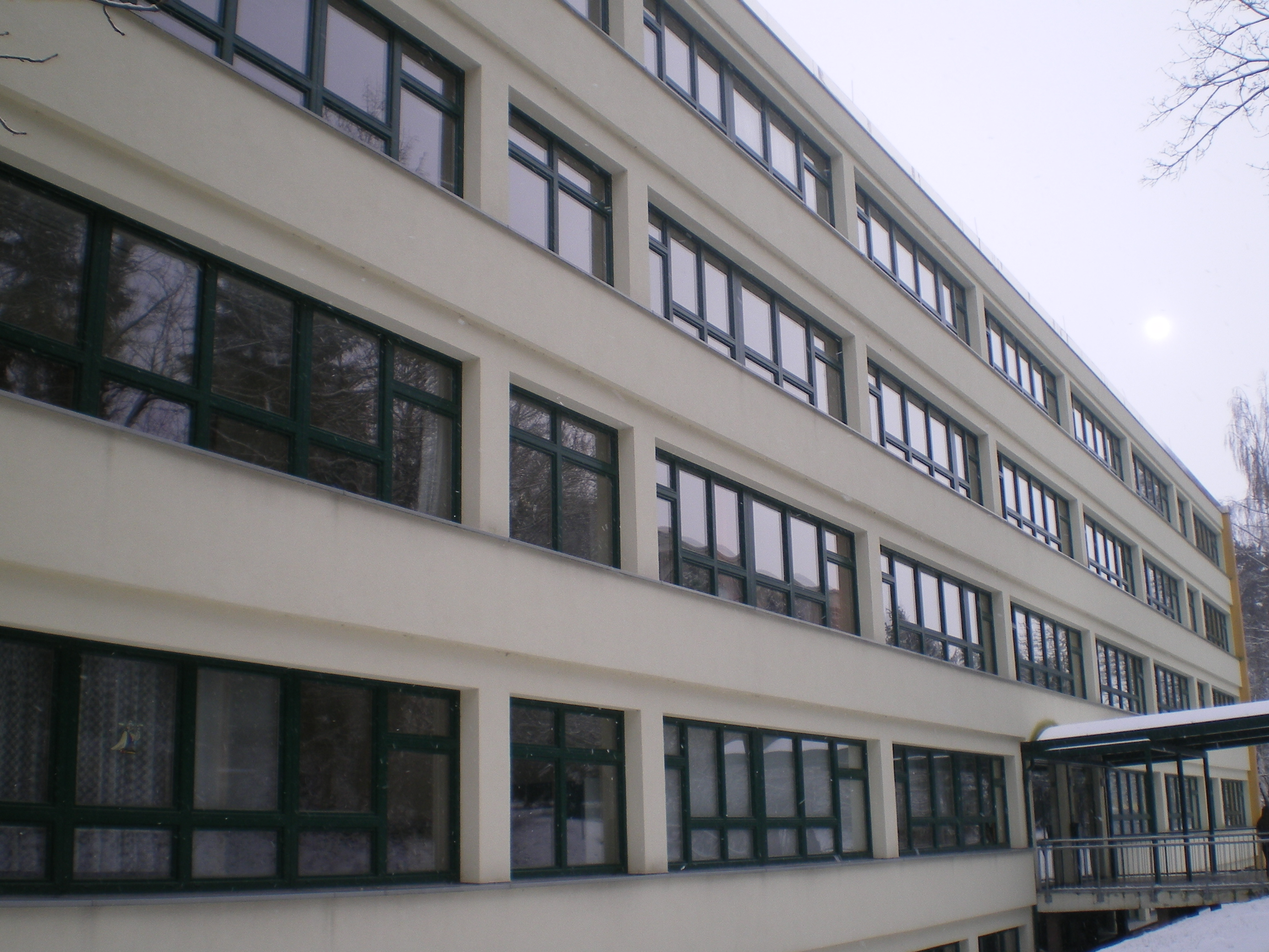 Grammar school in Crimmitschau near Zwickau/Saxony